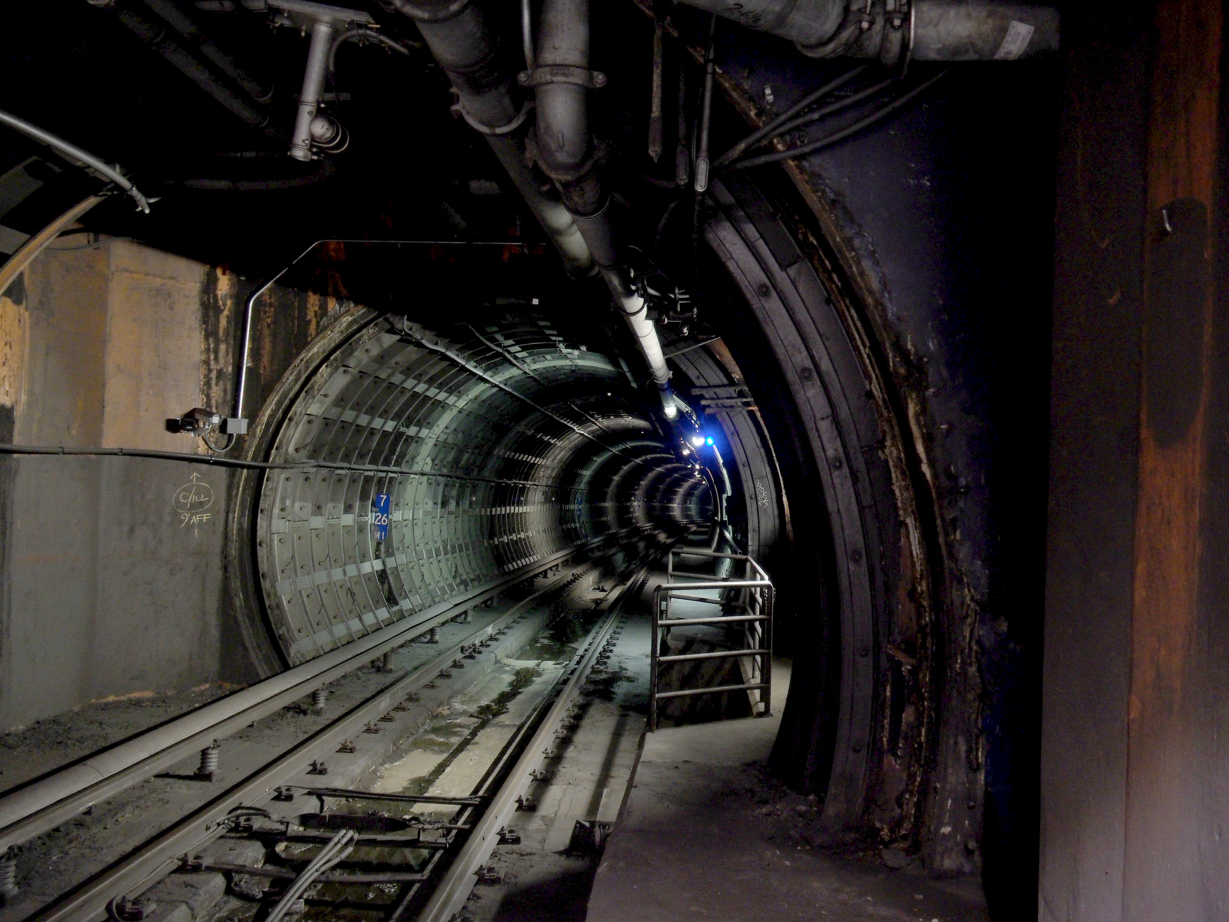 Toward the Transbay Tube in San Francisco, California, United States